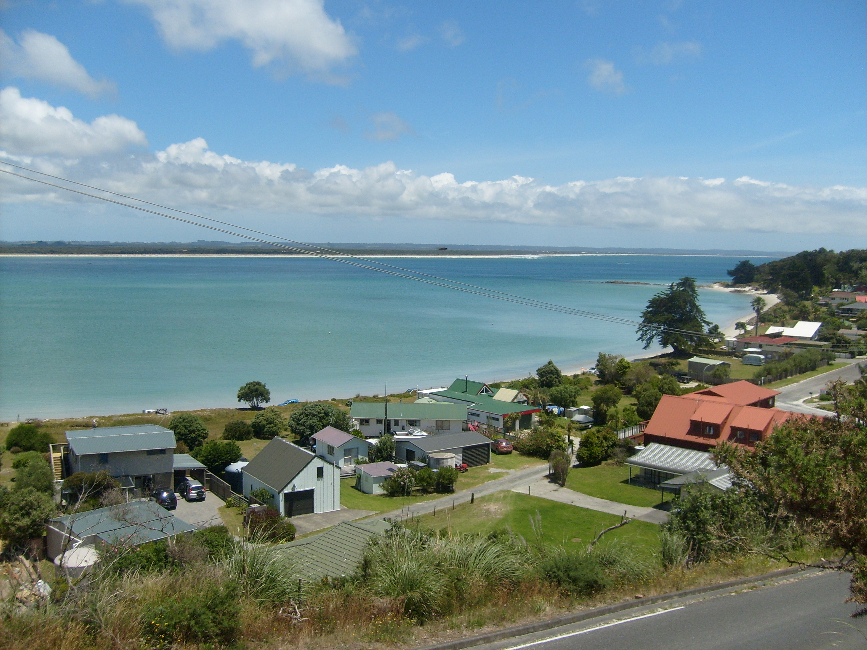 View over Rangugu harbour, Karikari Peninsula, Northland, New Zealand